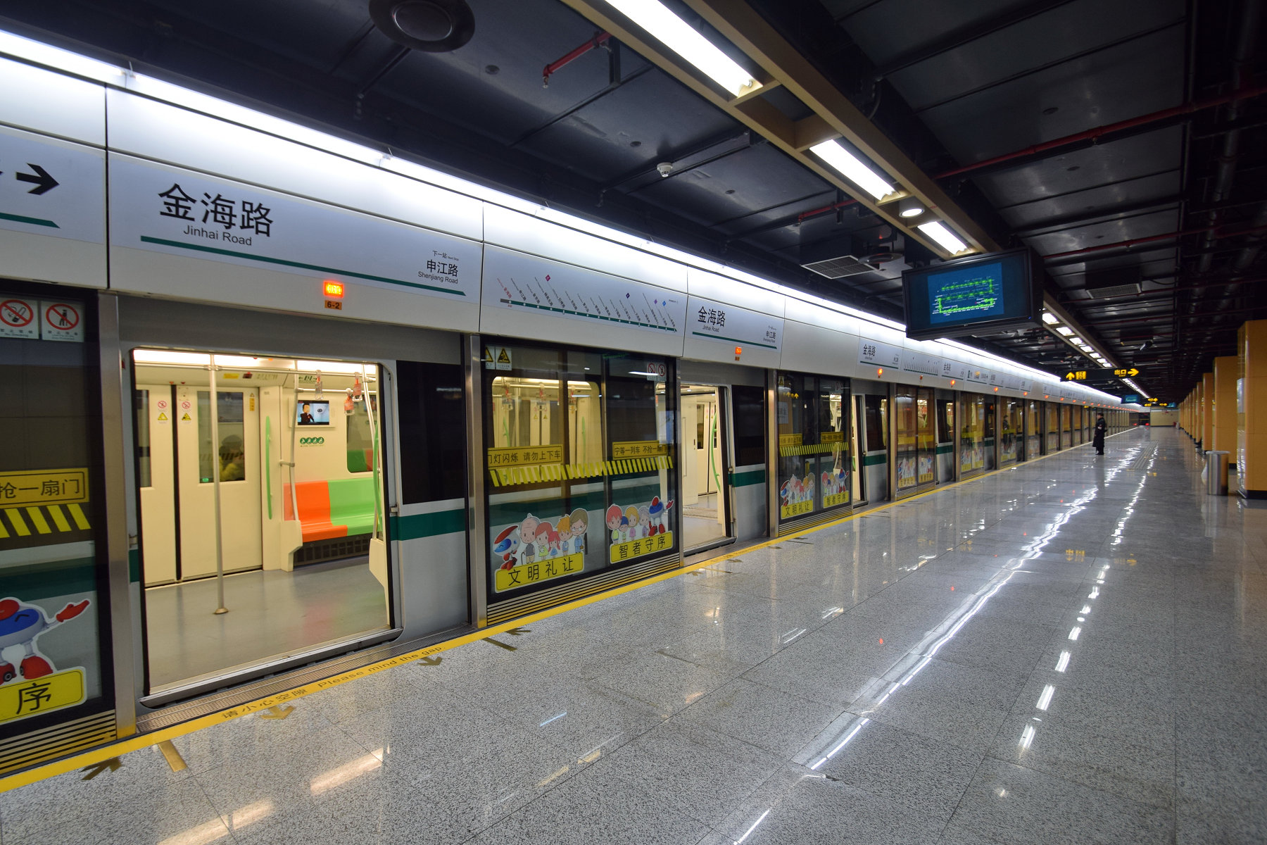 Shanghai Metro Line 12 AC09B Train at Jinhai Road Station